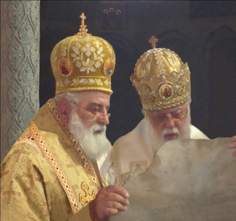 Bishop Ananias and Ilia II. Georgia. Svetitskhoveli.2001.